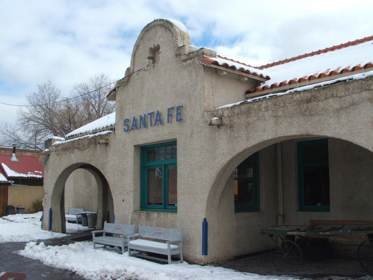 The Santa Fe Depot station in Santa Fe, New Mexico